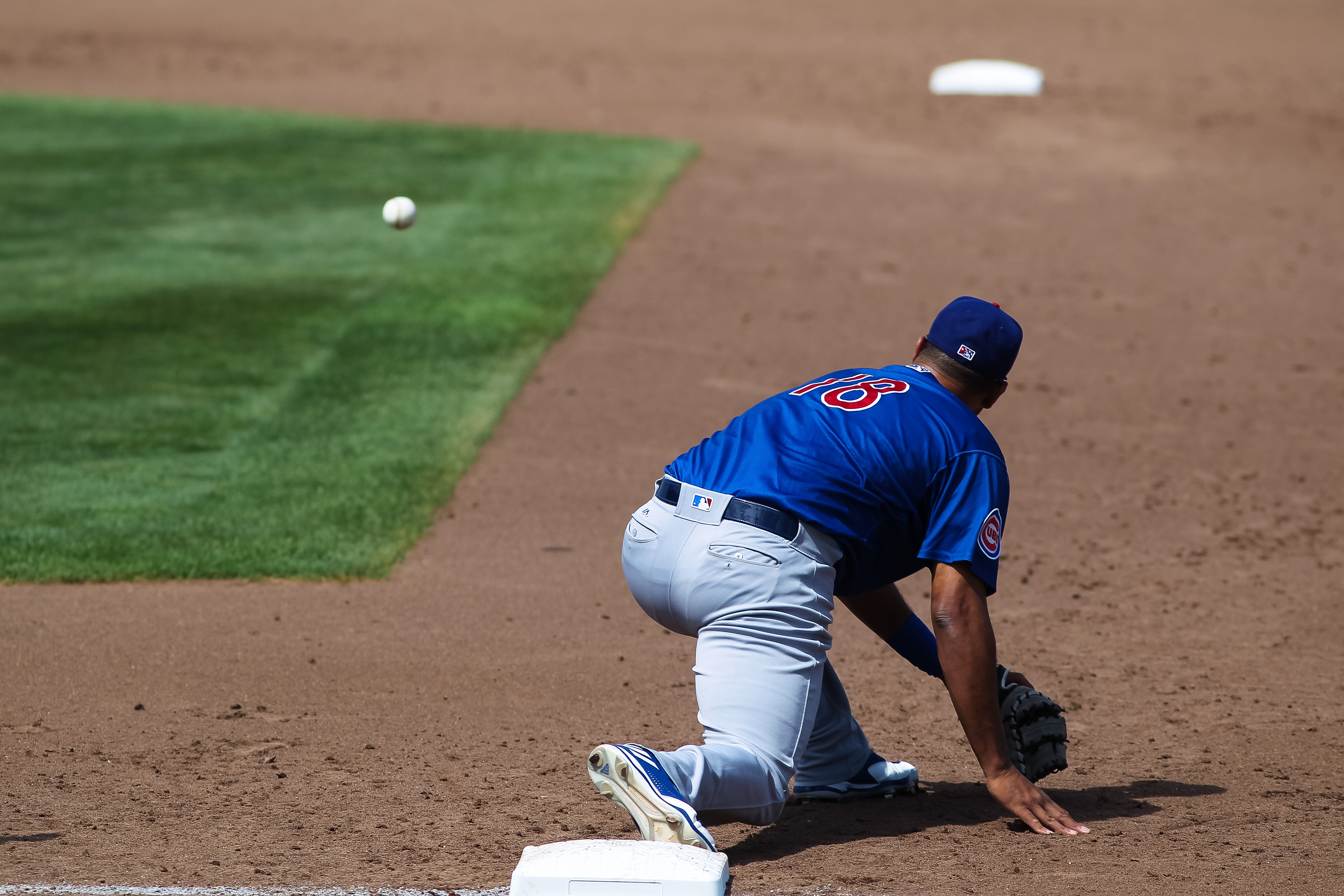 Minda Haas Kuhlmann | 2017 USAGE INSTRUCTIONS: You are welcome to share or publish to your own site or social media account, but you MUST credit me, Minda Haas Kuhlmann, or by my Twitter handle (@minda33) or Instagram (minda.haas).